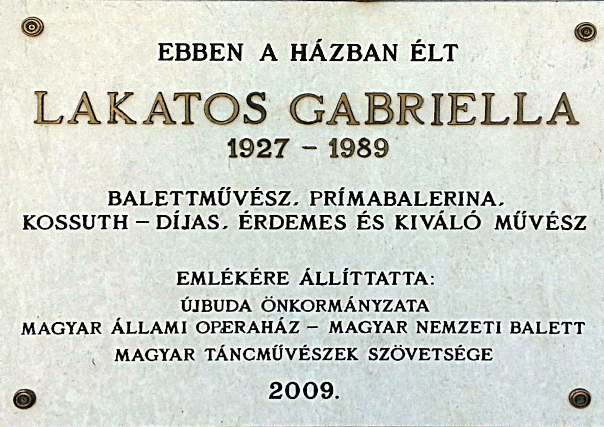 Gabriella Lakatos commemorative plaque in Budapest District XI, Kelenhegyi Street No 38/A